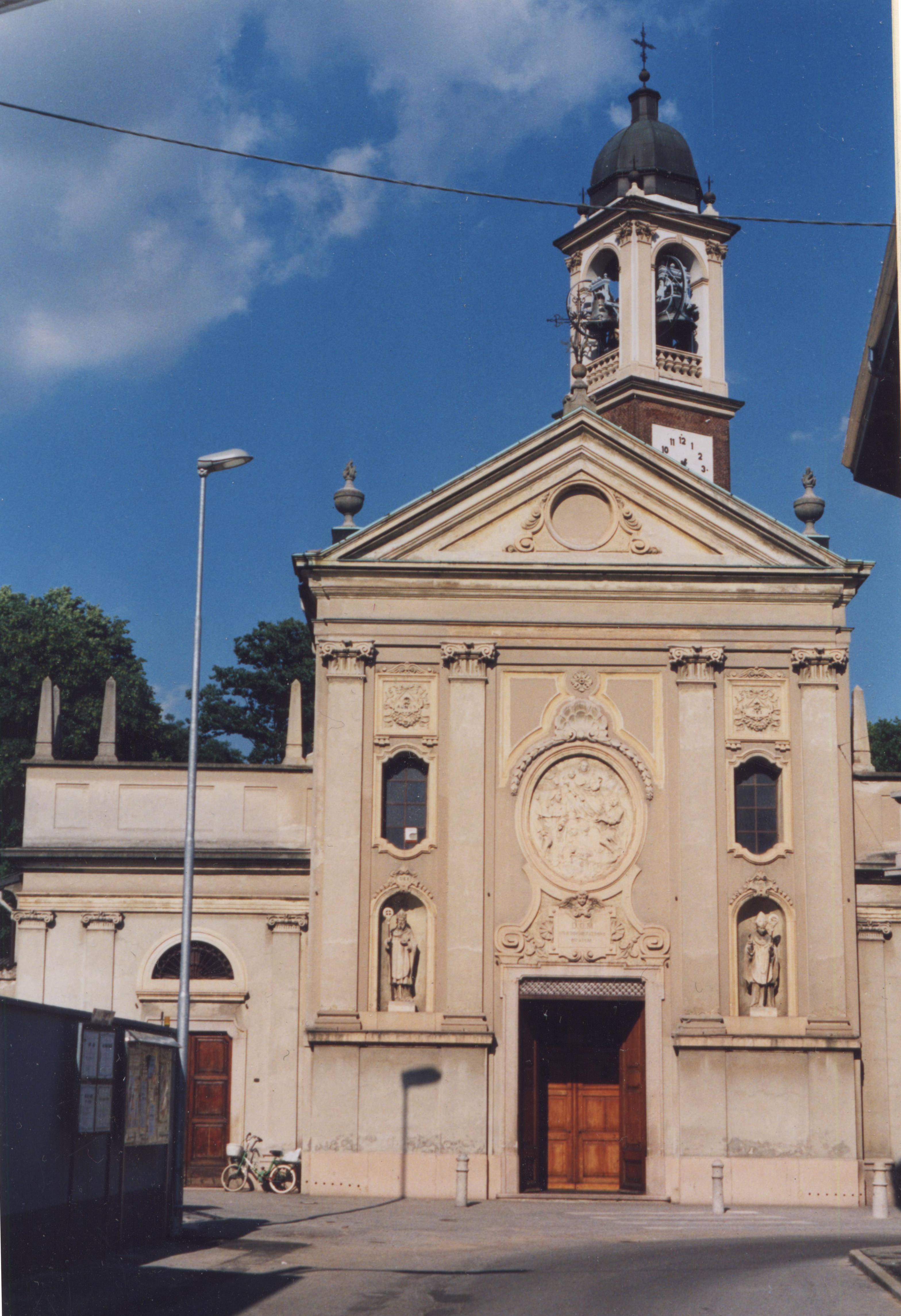 San Fruttuoso church in Monza (Italy); photo taken from via San Fruttuoso